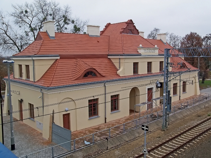 Railway station Modlin in Nowy Dwór Mazowiecki